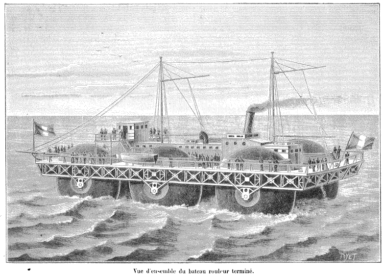 View of the completed roller boat